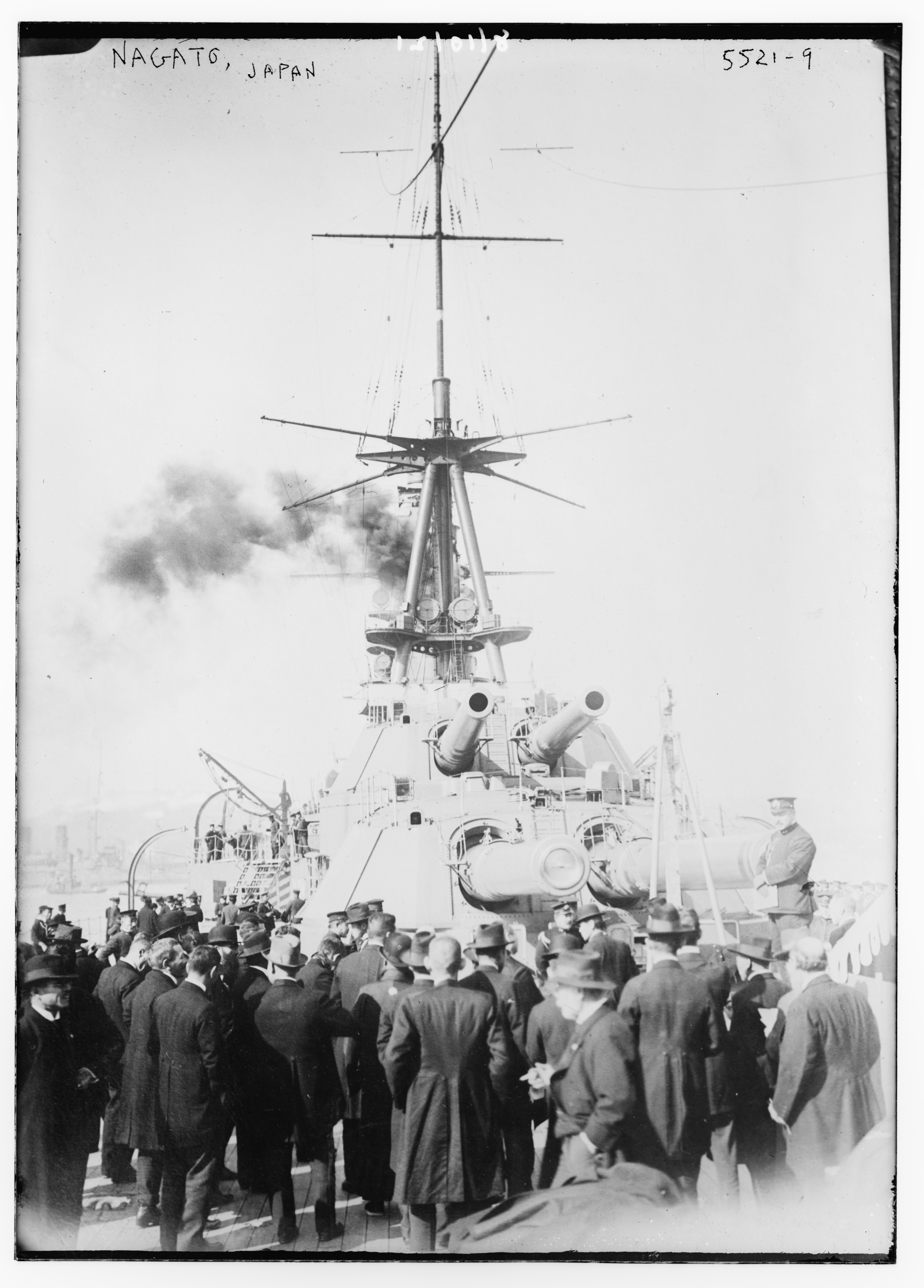 Title: Nagato, Japan Abstract/medium: 1 negative : glass ; 5 x 7 in. or smaller.